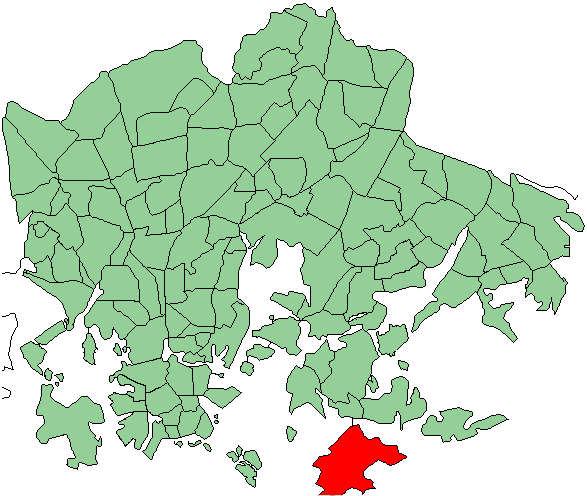 A map of Helsinki, Finland, highlighting Santahamina